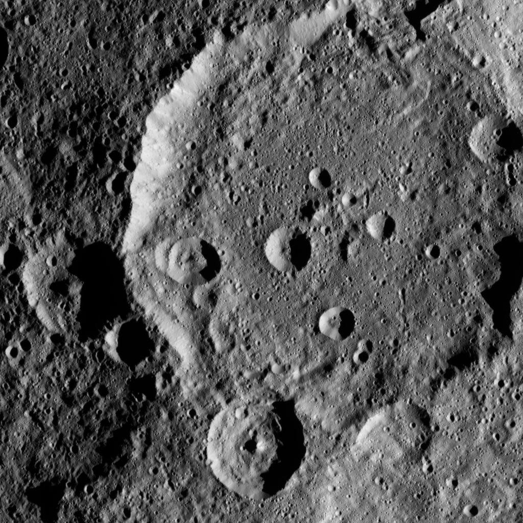 PIA19888: Dawn HAMO Image 12 This image, taken by NASA's Dawn spacecraft, shows a portion of the southern hemisphere of dwarf planet Ceres from an altitude of 915 miles (1,470 kilometers). The image, with a resolution of 450 feet (140 meters) per pixel, was taken on August 21, 2015. Dawn's mission is managed by JPL for NASA's Science Mission Directorate in Washington. Dawn is a project of the directorate's Discovery Program, managed by NASA's Marshall Space Flight Center in Huntsville, Alabama. UCLA is responsible for overall Dawn mission science. Orbital ATK, Inc., in Dulles, Virginia, designed and built the spacecraft. The German Aerospace Center, the Max Planck Institute for Solar System Research, the Italian Space Agency and the Italian National Astrophysical Institute are international partners on the mission team. For a complete list of acknowledgments, For more information about the Dawn mission, visit